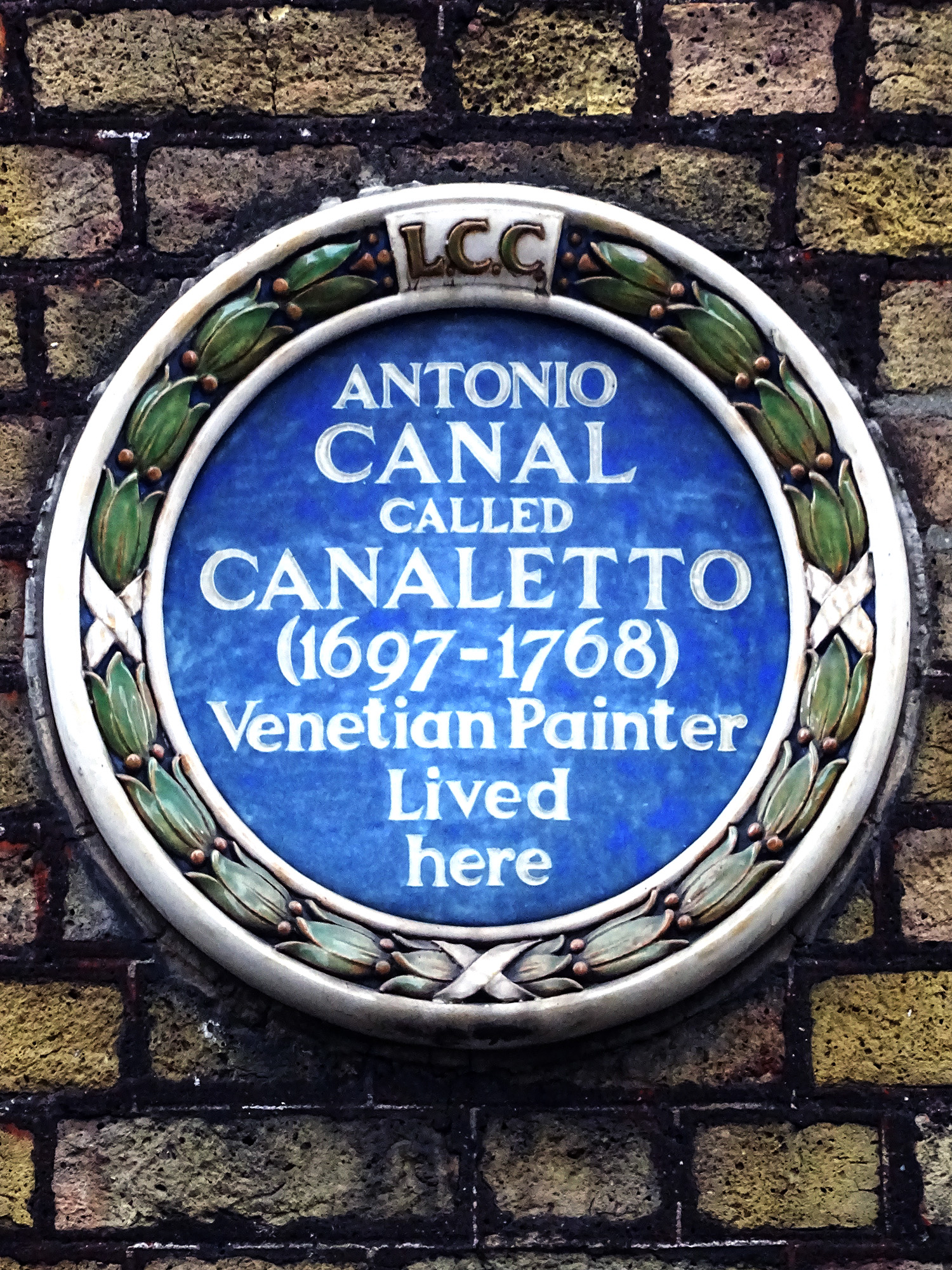 Doulton 'della Robbia' style blue plaque with green laurel border erected in 1925 by London County Council at 41 Beak Street, Soho, London W1F 9SB, City of Westminster